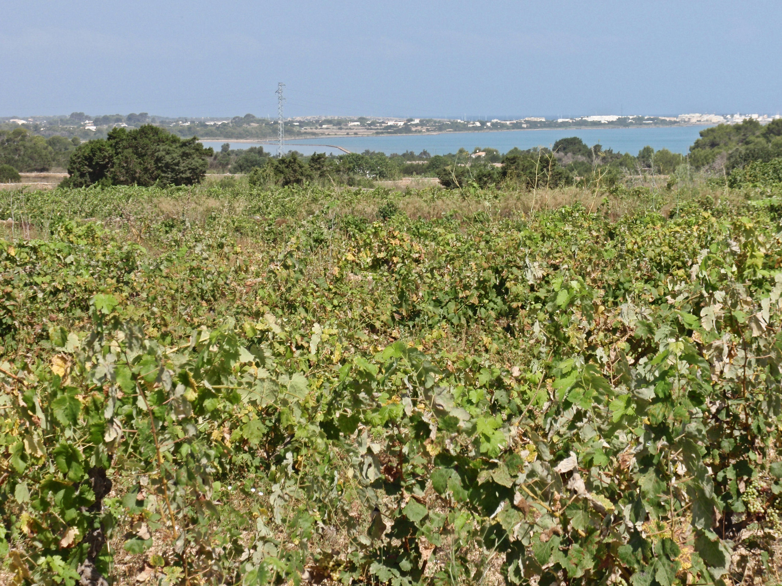 Vineyards at Formentera, Balearic Islands.